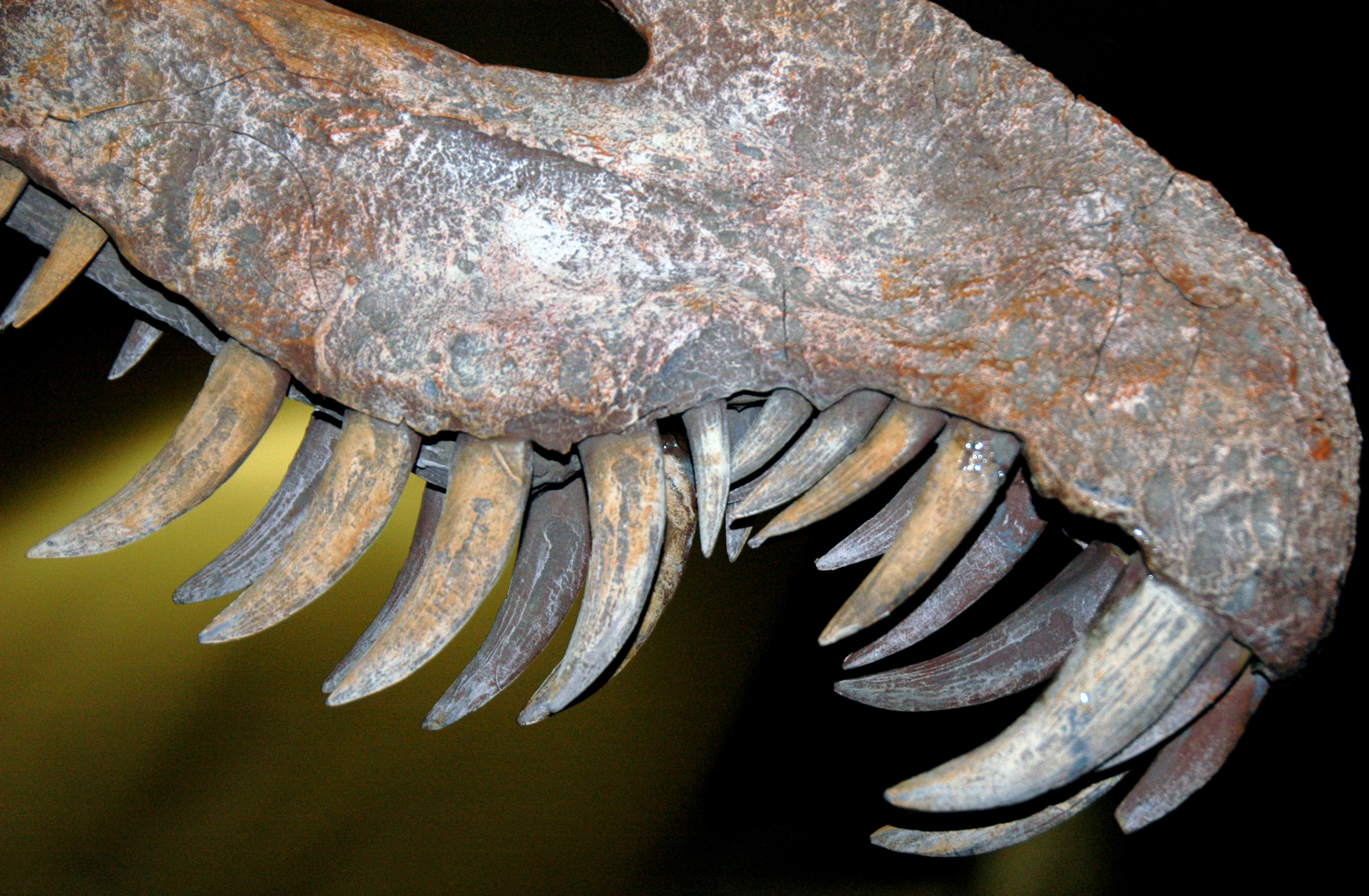 Suchomimus tenerensis Sereno et al., 1998 theropod dinosaur from the Cretaceous of Niger, Africa (temporary public display, Sternberg Museum of Natural History, Hays, Kansas, USA). Suchomimus was a predatory dinosaur that had a somewhat crocodilian-like, elongated skull (~4 feet long in this reconstruction), with sharp, posteriorly-directed, sometimes overlapping, teeth. Its fossils are found in fluvial sandstones, so during life, it likely frequented riverine environments. Its diet has been interpreted as including fish and other dinosaurs. This 36-feet long, 5 ton animal had powerful, clawed arms with an enlarged thumb claw and a vertebral column with elongated neural spines that formed a low sail. Classification: Animalia, Chordata, Vertebrata, Dinosauria, Theropoda, Spinosauridae Stratigraphy: fluvial sandstones, Elrhaz Formation, Tegama Group, Aptian Stage, upper Lower Cretaceous Locality: Gadoufaoua, southwestern Tenere Desert, central Niger, northwest-central Africa Reference: Sereno, P.C., A.L. Beck, D.B. Dutheil, B. Gado, H.C.E. Larsson, G.H. Lyon, J.D. Marcot, O.W.M. Rauhut, R.W. Sadleir, C.A. Sidor, D.D. Varricchio, G.P. Wilson & J.A. Wilson. 1998. A long-snouted predatory dinosaur from Africa and the evolution of spinosaurids. Science 282: 1298-1302. Theropod were small to large, bipedal dinosaurs. Almost all known members of the group were carnivorous (predators and/or scavengers). They represent the ancestral group to the birds, and some theropods are known to have had feathers. Some of the most well known dinosaurs to the general public are theropods, such as Tyrannosaurus, Allosaurus, and Spinosaurus.